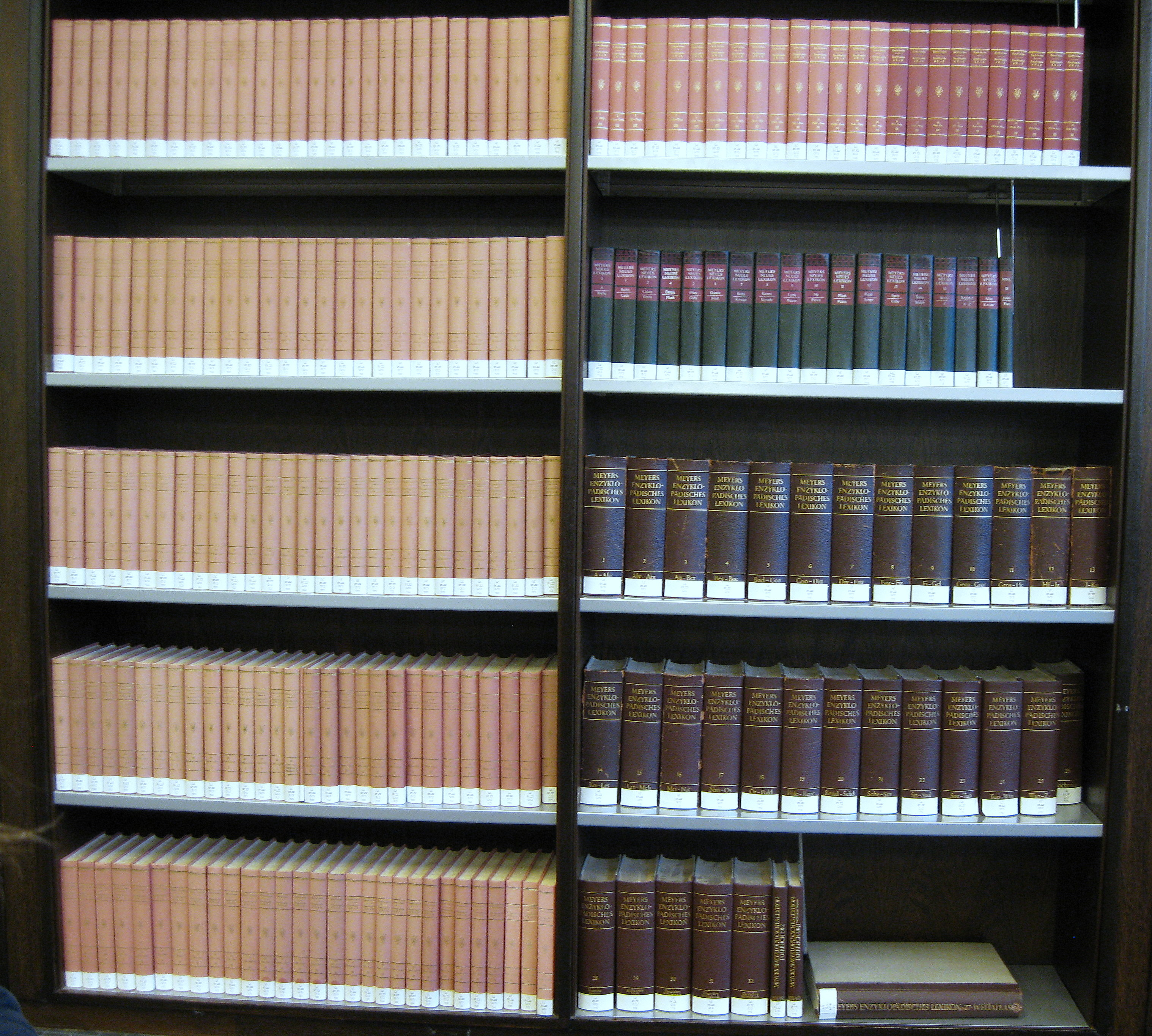 University library of Nijmegen: Allgemeine Encyclopädie der Wissenschaften und Künste (Ersch-Gruber), in orange/red